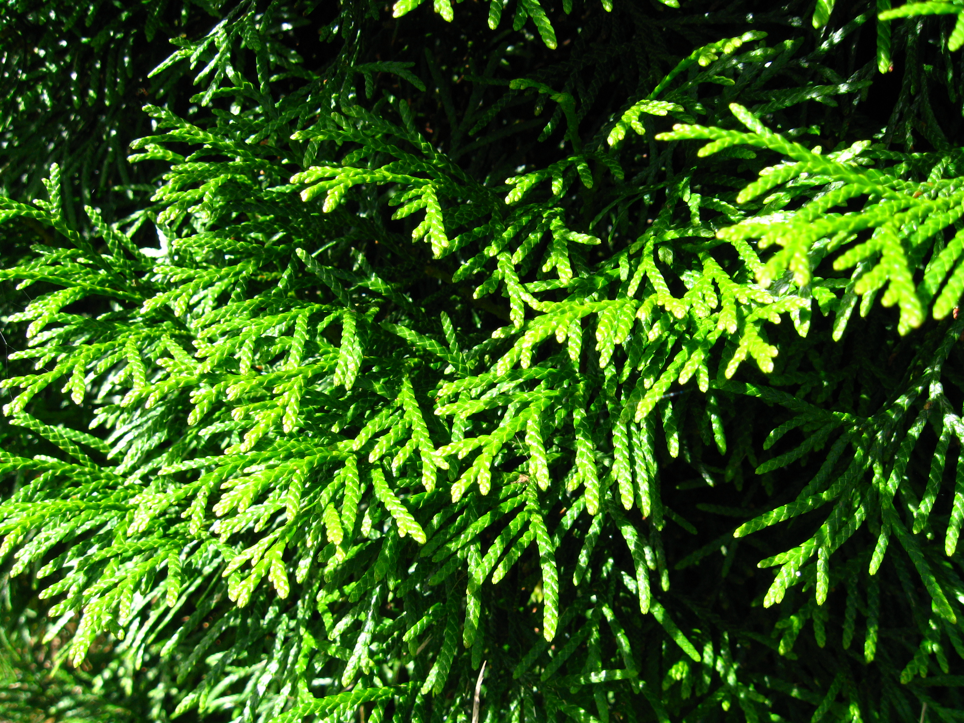 Northern Whitecedar var. Smaragd (Thuja occidentalis 'Smaragd')